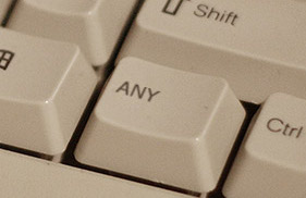 Fictional Any key on keyboard.